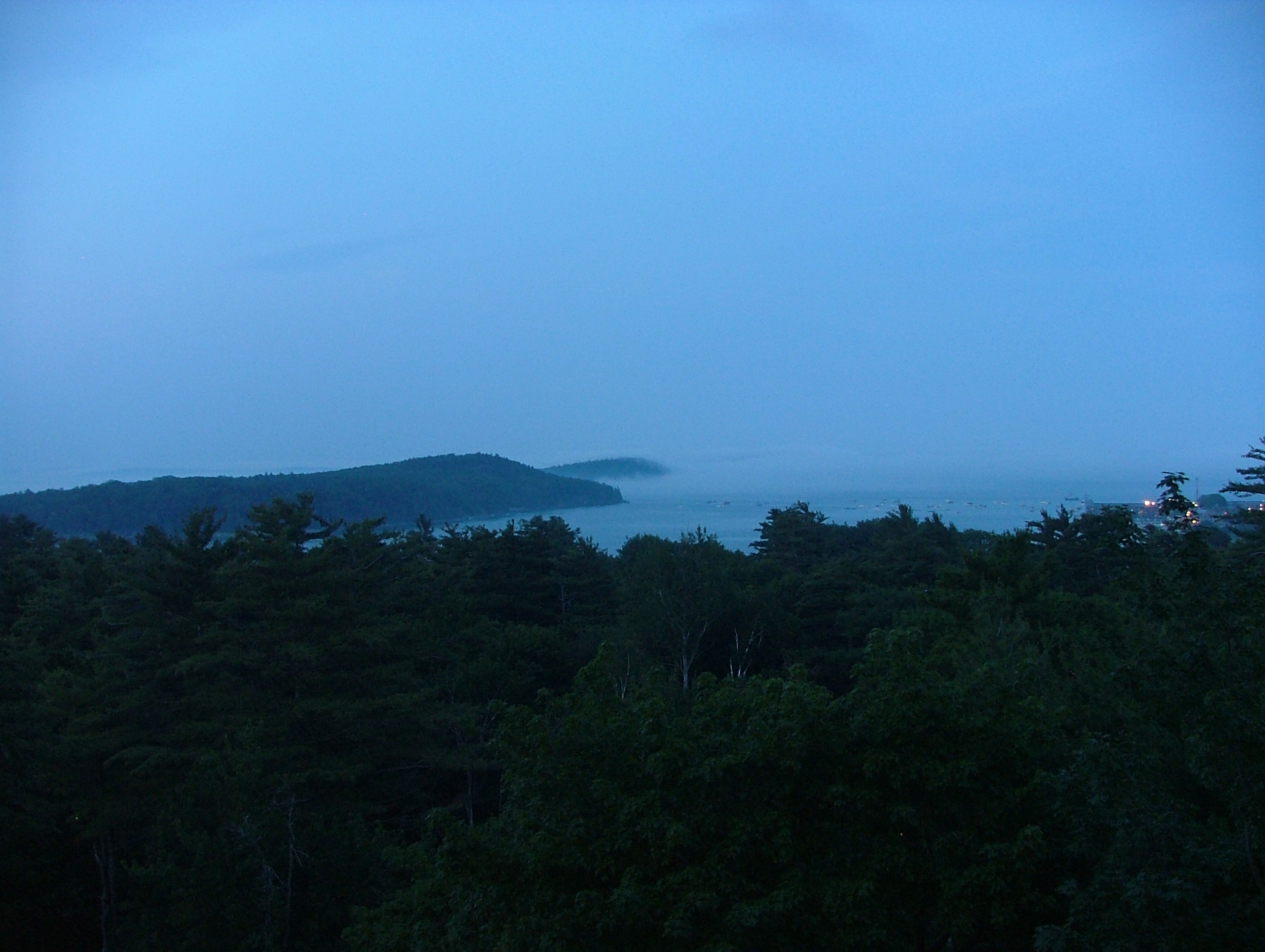 Fog approaching Bar Harbor, Maine from Frenchman Bay.